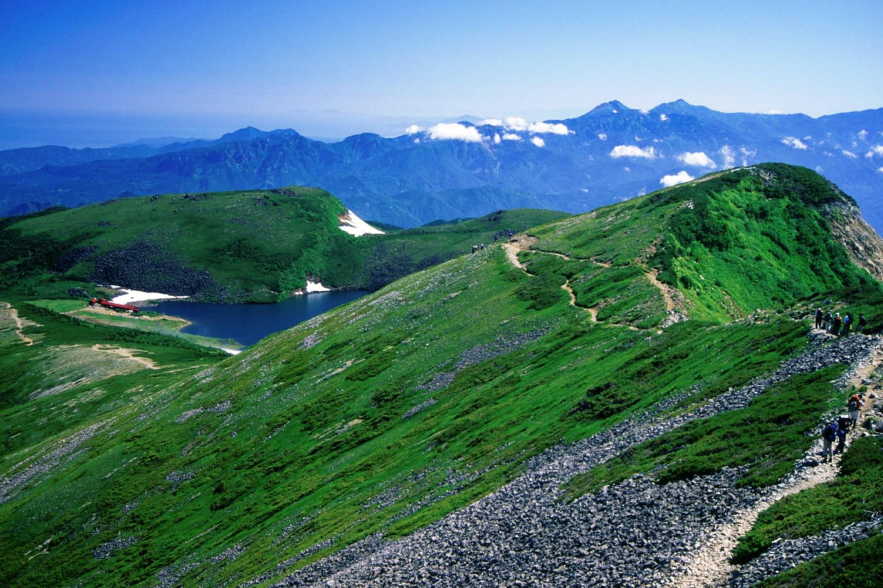 Hakubaōike seen from Mount Korenge in Ushirotateyama Mountains, Japan.